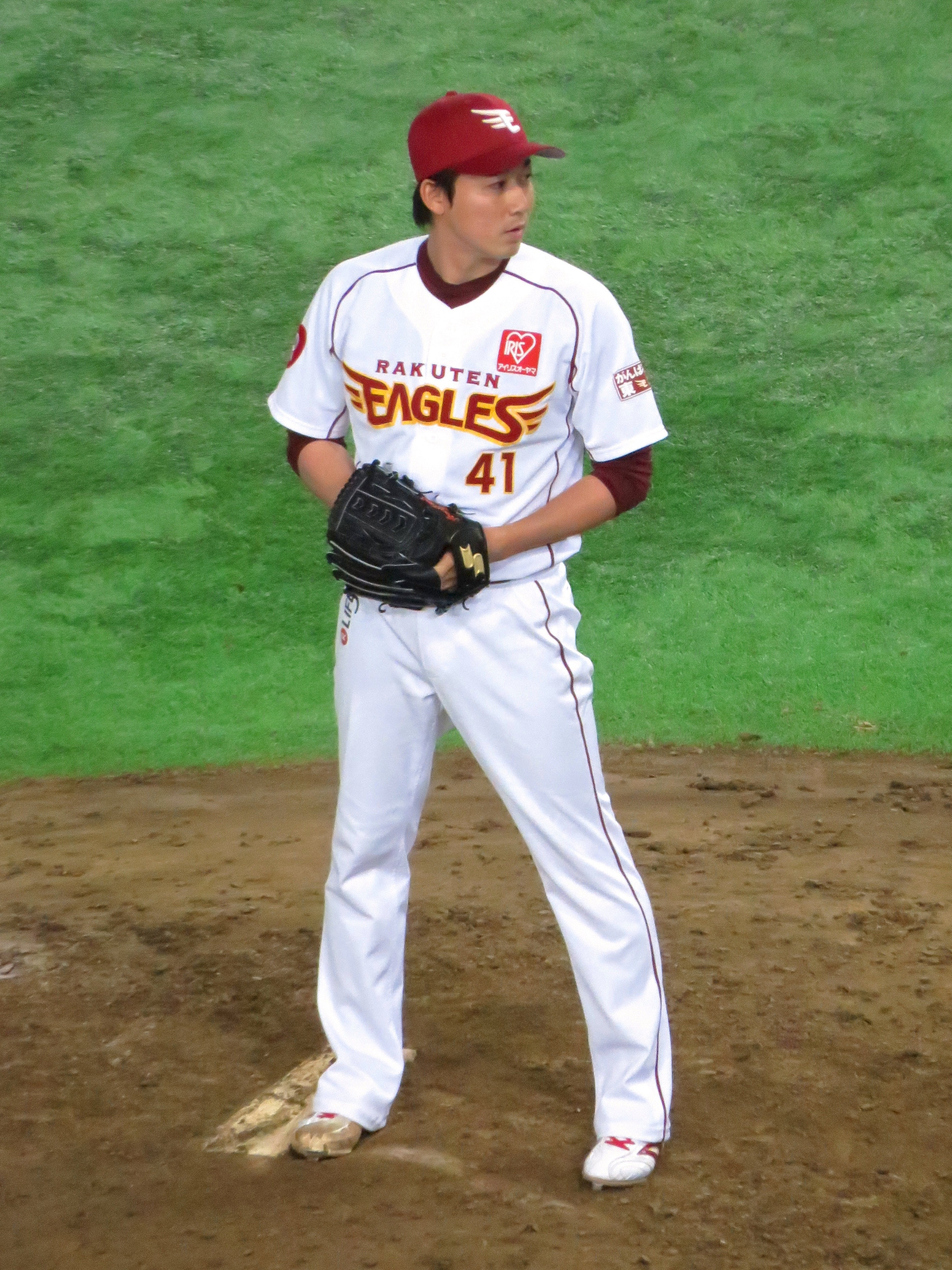 Koji Aoyama, pitcher of the Tohoku Rakuten Golden Eagles, at Tokyo Dome